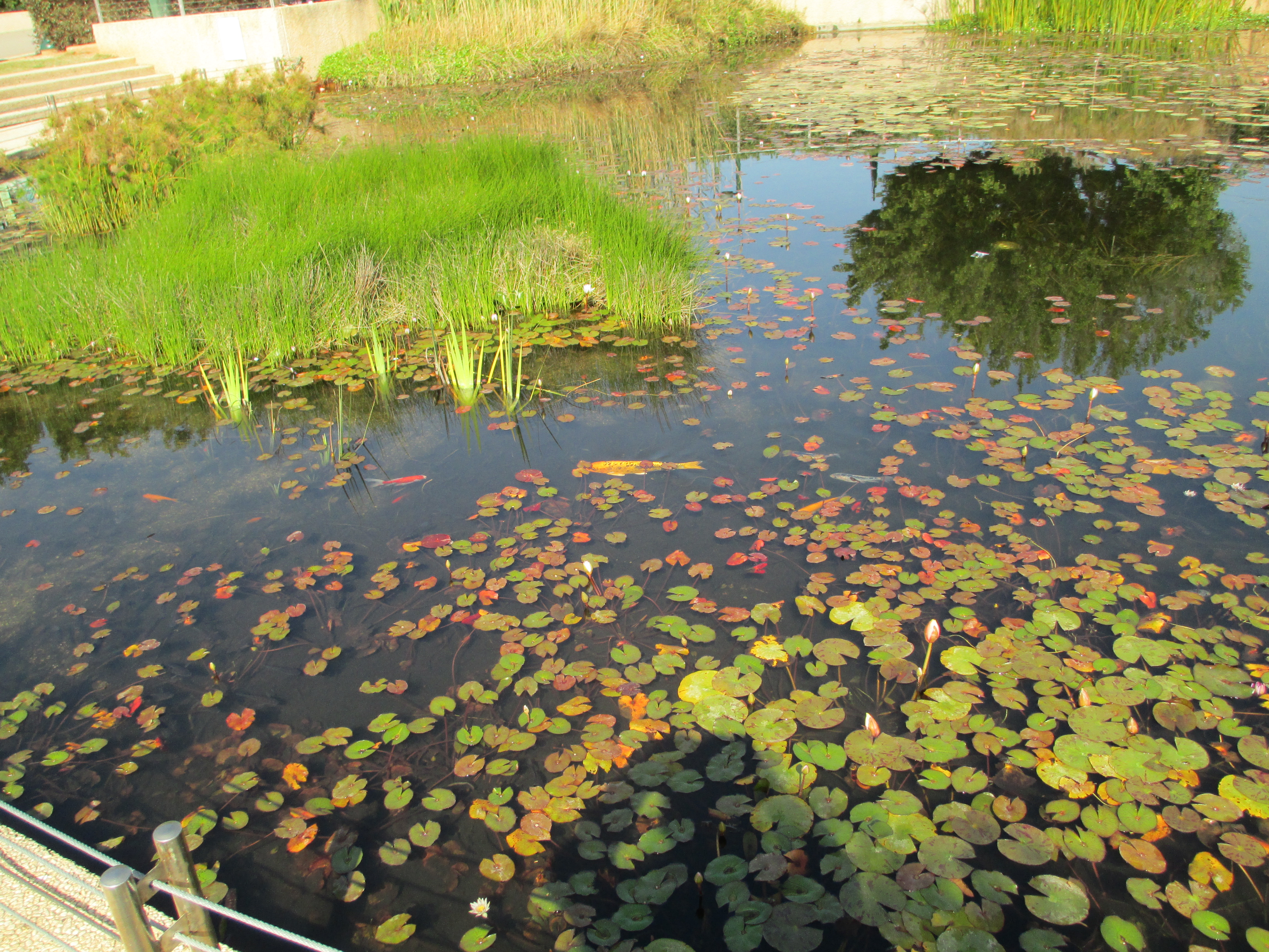 Ecological Pond in Kfar Saba park